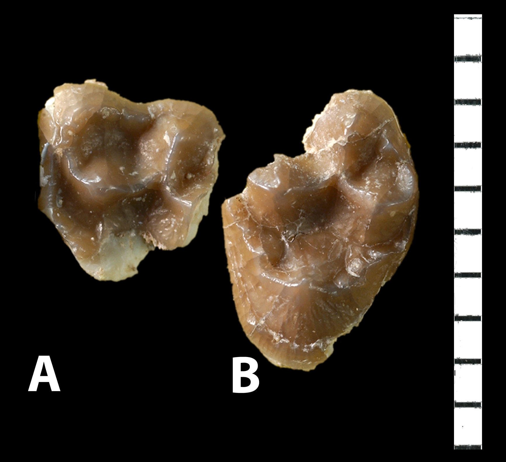 Ocepeia grandis n. sp., Thanetian (Phosphate level IIa), Sidi Chennane, Ouled Abdoun Basin, Morocco. MNHN.F PM39, fragments of isolated upper molars: left M2? and left M1 (labial part) in occlusal view. Scale bar:10 mm.